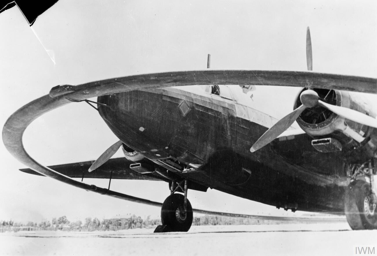 A close-up view of a Vickers Wellington DWI (Directional Wireless Installation) on the ground at Ismailia, Egypt, showing the electromagnetic ring used to explode magnetic mines. (Original IWM caption: Close-up of a Vickers Wellington DWI Mark II of No. 1 General Reconnaissance Unit at Ismaliya, Egypt, , showing the 48-foot diameter electromagnetic ring, for exploding magnetic mines, suspended from the wings and fuselage of the aircraft. The ring weighed over two and a quarter tons.)